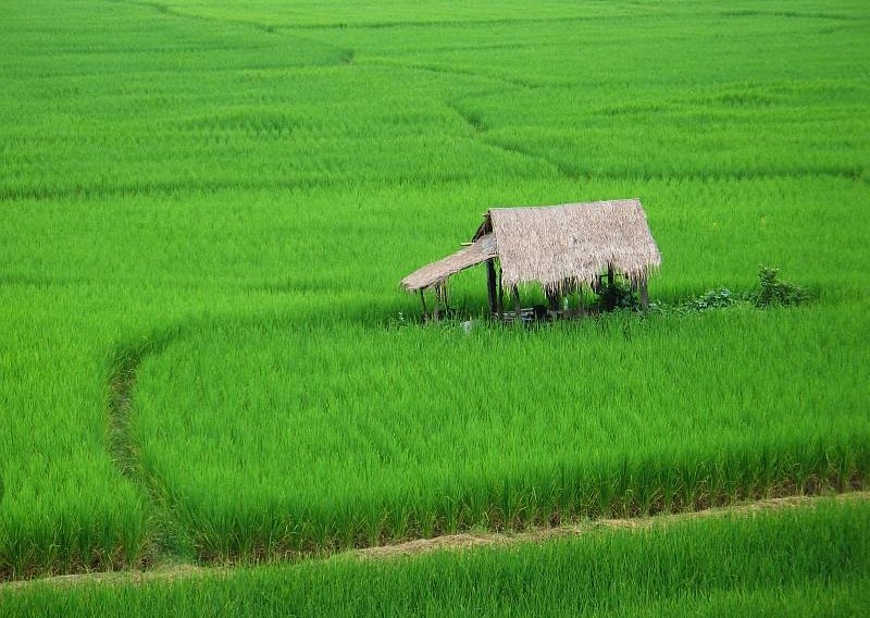 Rice fields and a small hut providing shade for the workers just outside the town of Nan, Thailand